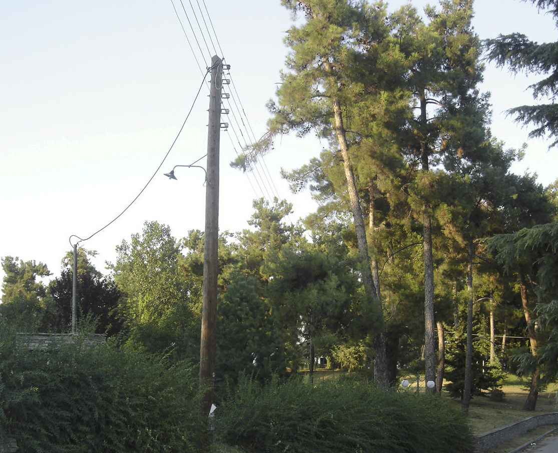 A forest in Katahas, Pieria.